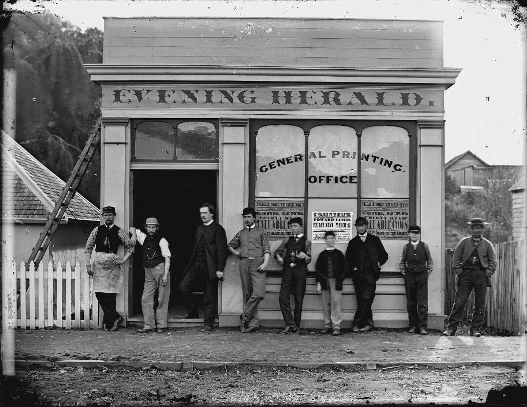 Group outside the Evening Herald office in Campbell Place, Wanganui, circa 1870. John Ballance is third from the left.